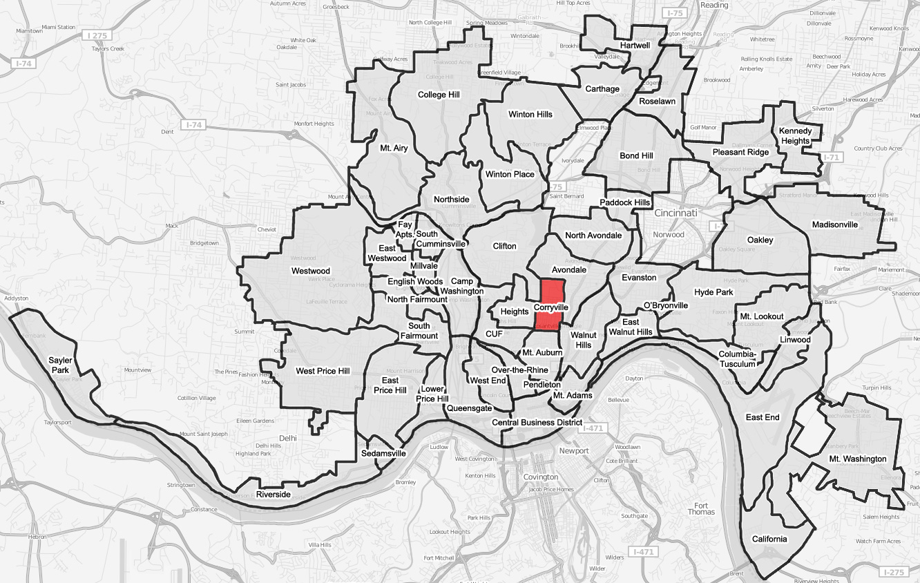 A map of the neighborhood of Corryville within Cincinnati, Ohio. Neighborhood lines are based on information from This street map is derived from a free map.